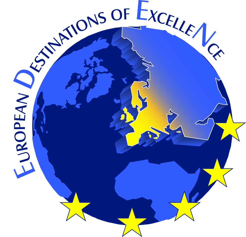 EDEN - European Destinations of Exelence Logo